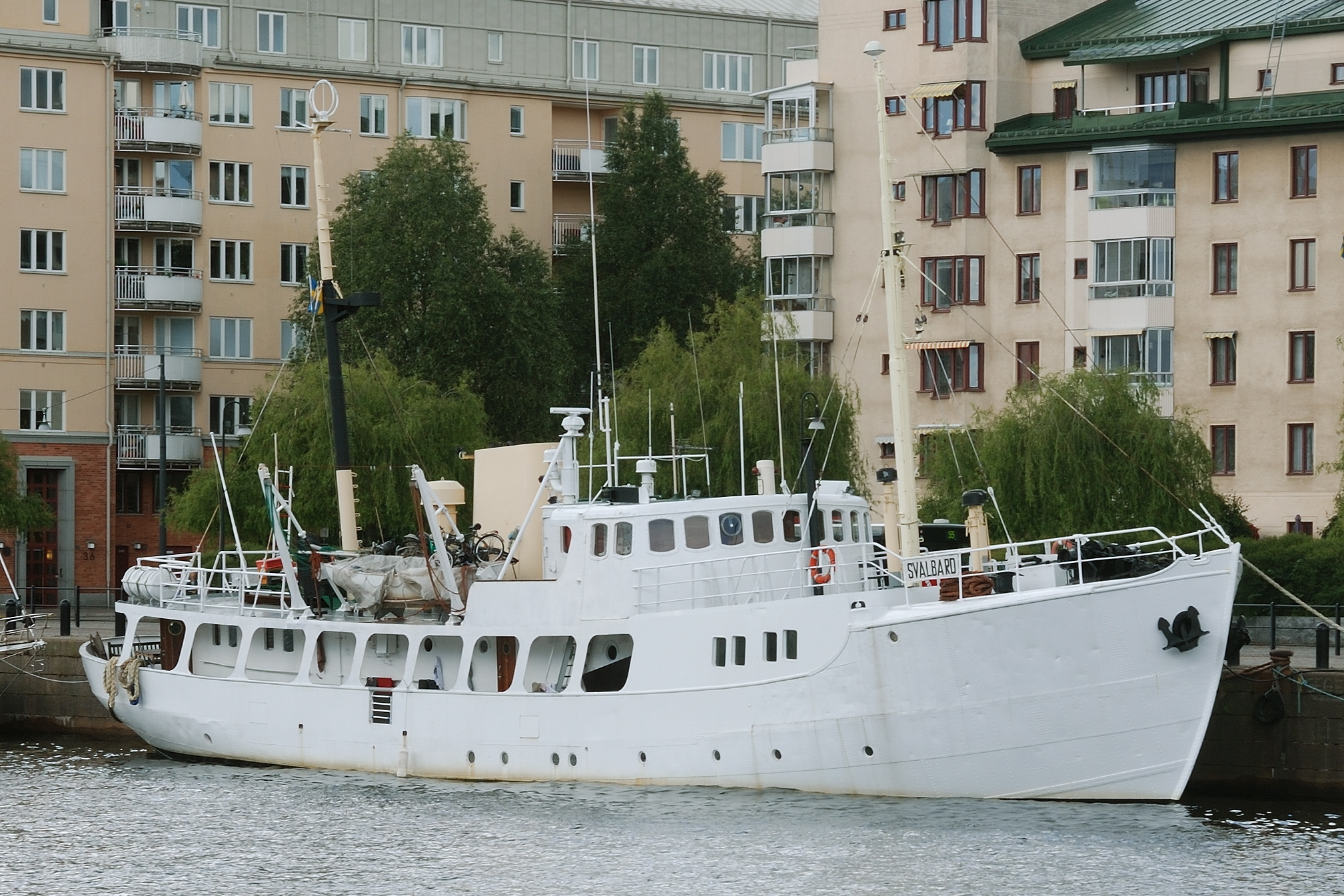 MS Svalbard